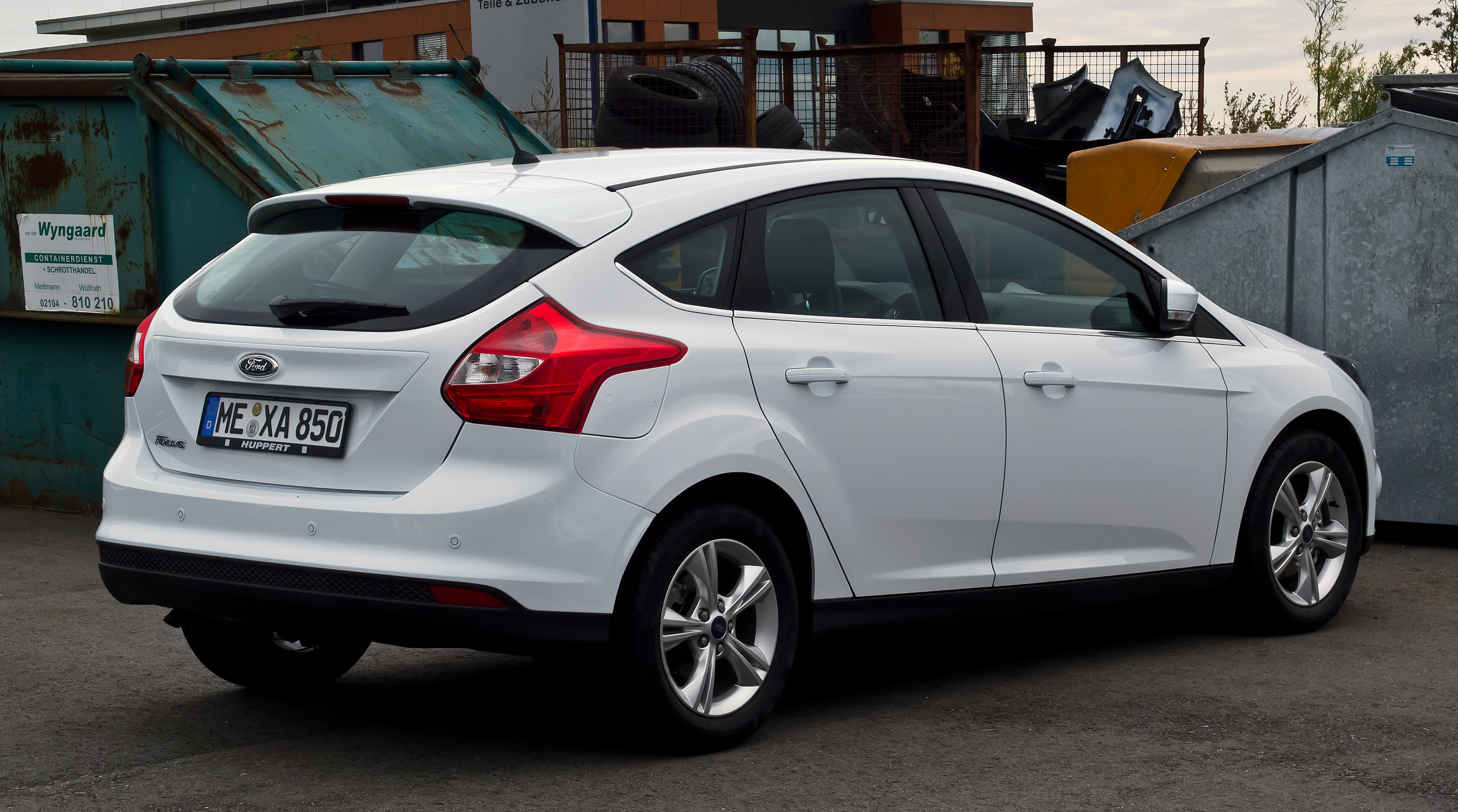 Ford Focus 1.6 Ti-VCT Champions Edition (III)